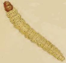 Stainton’s Natural History of the Tineina (1855–1873): Gelechia hippophaella